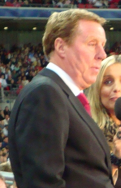 Louise Redknapp interviews her father-in-law Harry during Soccer Aid 2008